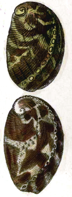 Haliotis speciosa Reeve, 1846; family Haliotidae